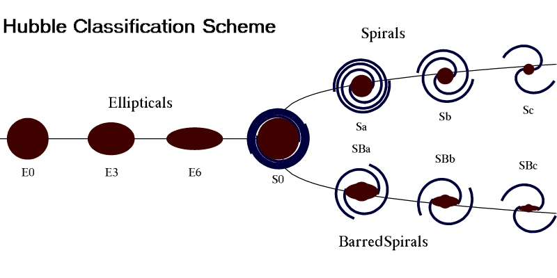 A tuning-fork diagram of the Hubble galaxy classification scheme. Elliptical galaxies are sorted according to how flattened they appear on the sky, a property which may not correspond to the galaxy's actual morphology. Spirals are divided into ordinary and barred, then sorted according to how tightly the arms are wound. The S0 category is applied to galaxies with disk shapes, but no obvious spiral structure. Credit: S. D. Cohen